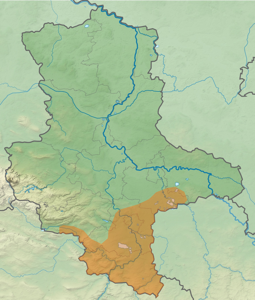 Distribution area of the Naumburg group in Saxony-Anhalt